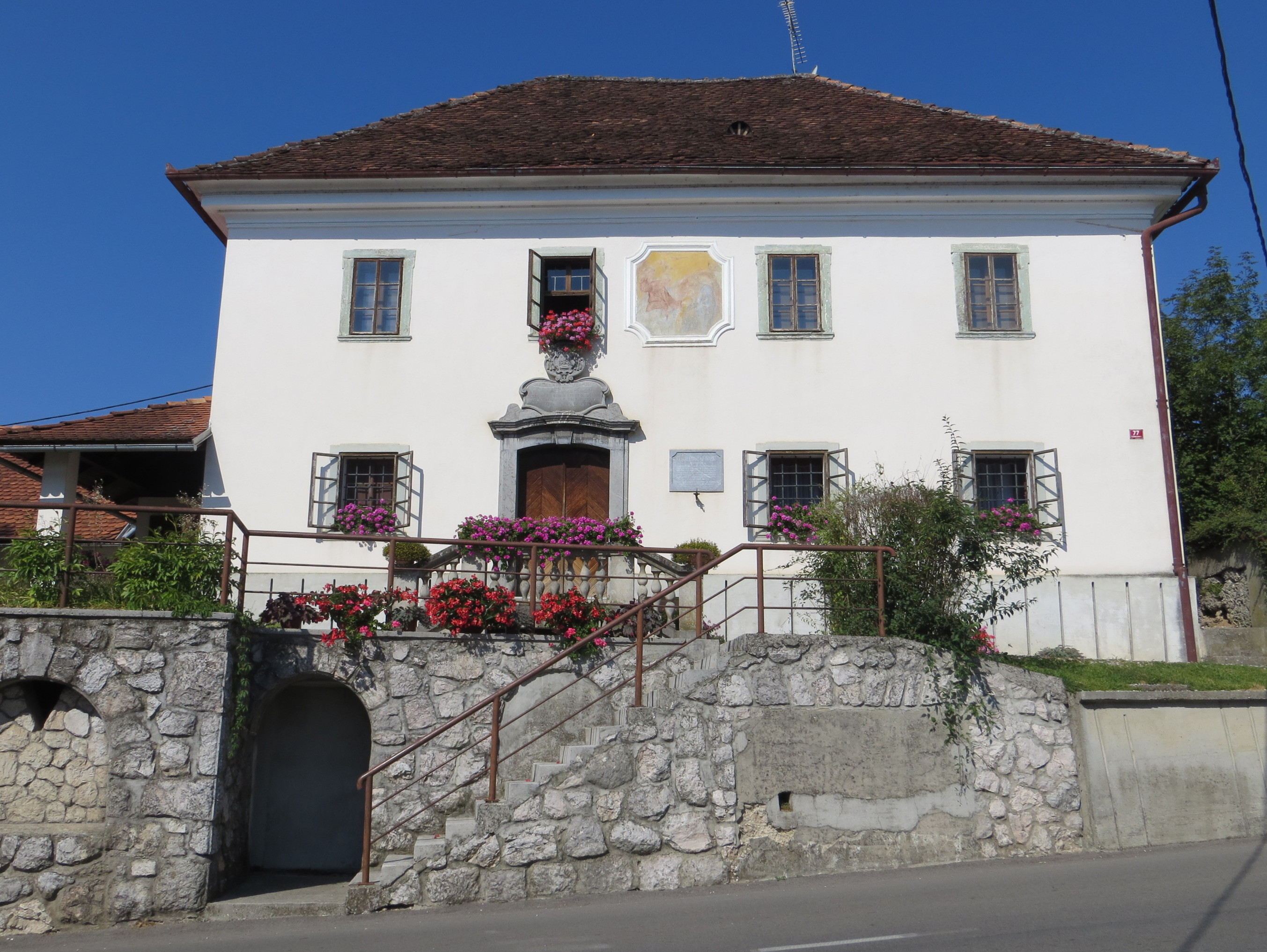 Peter Pavel Glavar's house in Komenda, Municipality of Komenda, Slovenia